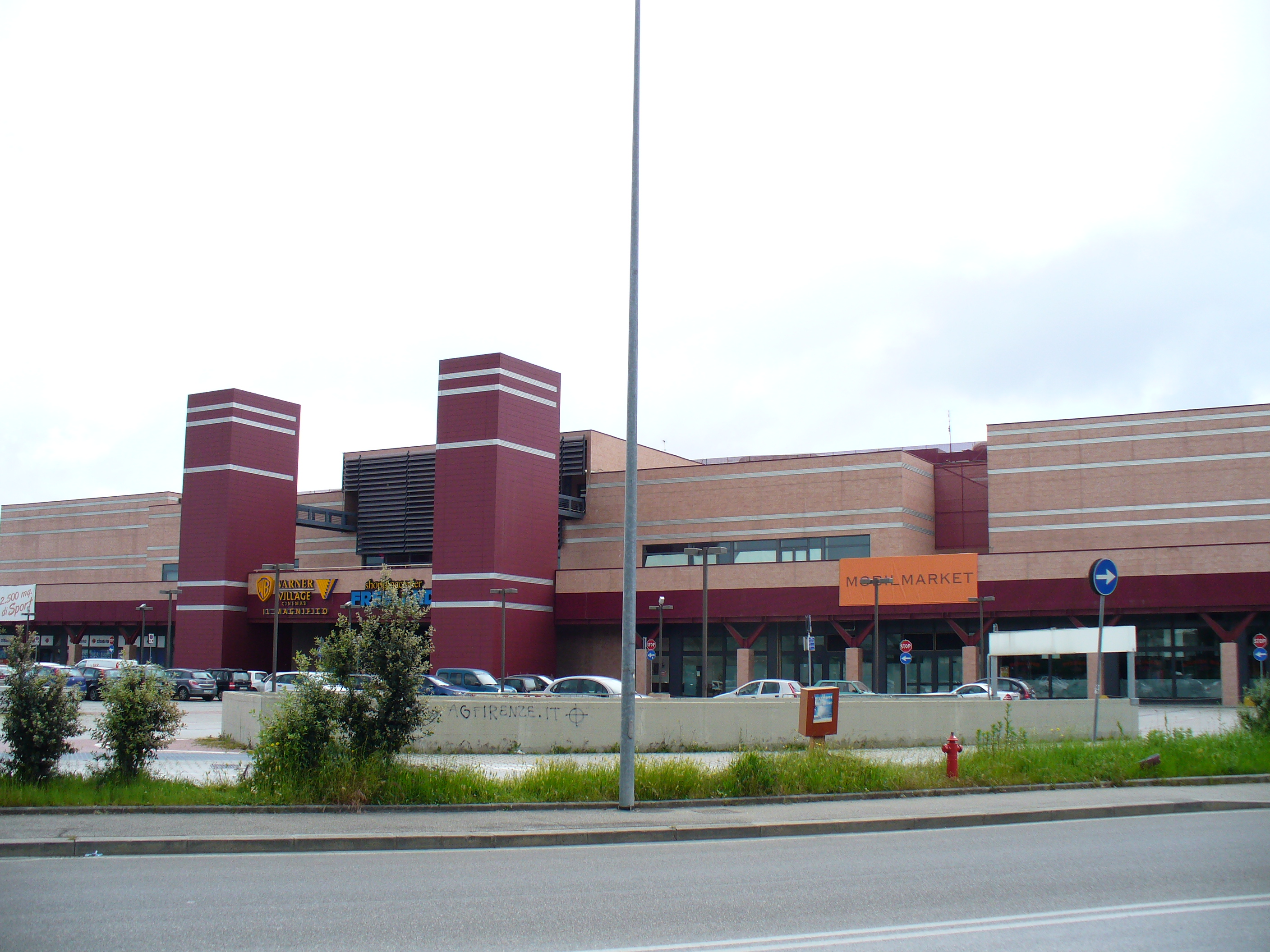 Warner Village Florence